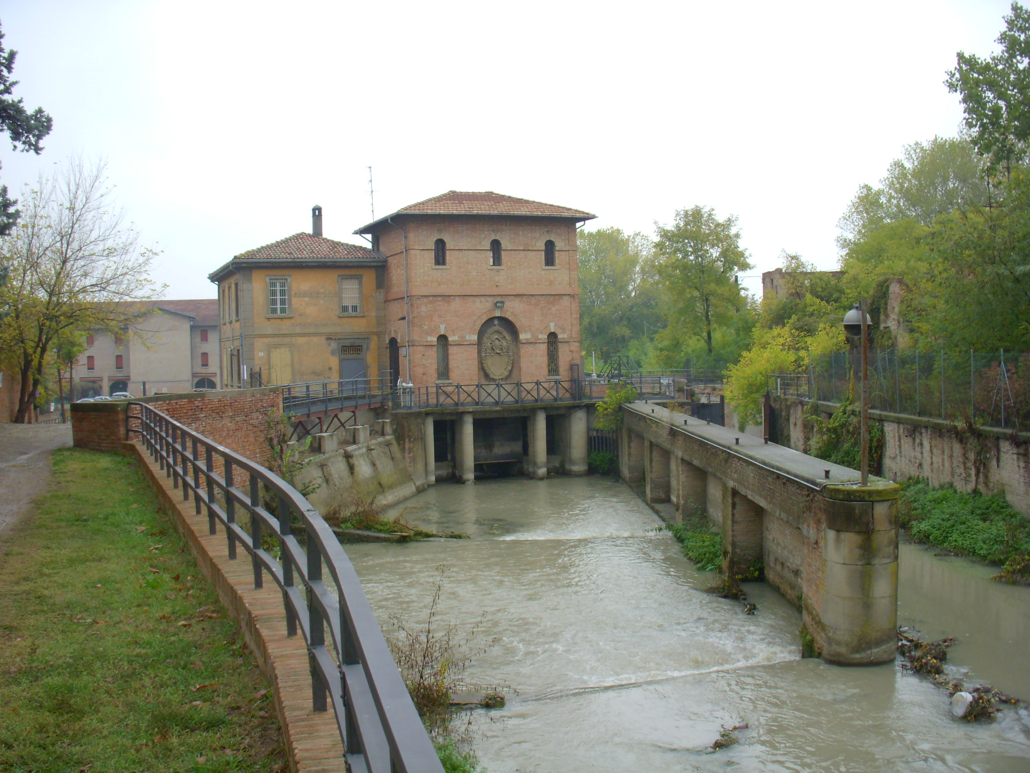 The sostegno del Battifero is a canal lock (dated 1439) of Bologna, Italy